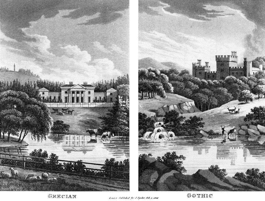 A Feb. 1st 1816 print (published J. Taylor, London) which exemplifies the contrast between neo-classical vs. romantic styles of landscape and architecture (or the "Grecian" and the "Gothic" as they're termed here). This engraved plate accompanied Humphry Repton's 1816 book Fragments on the Theory and Practice of Landscape Gardening. Marianne Dashwood in Jane Austen's Sense and Sensibility is a famous proponent of the romantic aesthetic, while Edward Ferrars in the same book says "I like a fine prospect, but not on picturesque principles. I do not like crooked, twisted, blasted trees. I admire them much more if they are tall, straight, and flourishing. I do not like ruined, tattered cottages. I am not fond of nettles or thistles, or heath blossoms. I have more pleasure in a snug farm-house than a watch-tower--and a troop of tidy, happy villagers please me better than the finest banditti in the world."